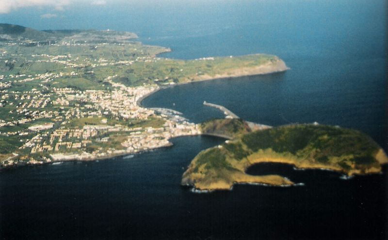 horta